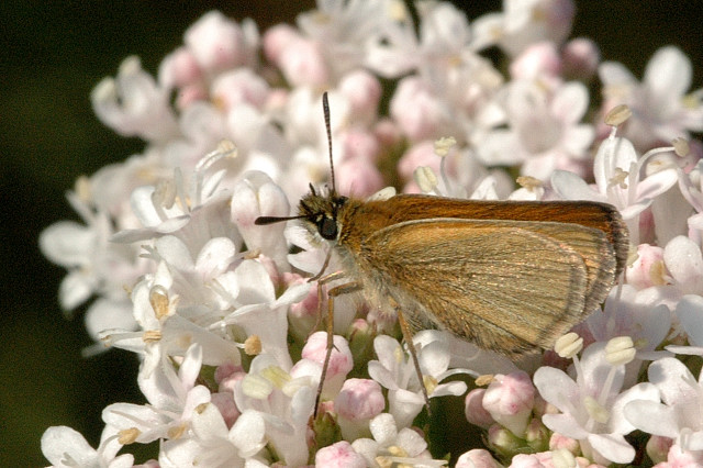 Thymelicus lineola from Commanster, Belgian High Ardennes .